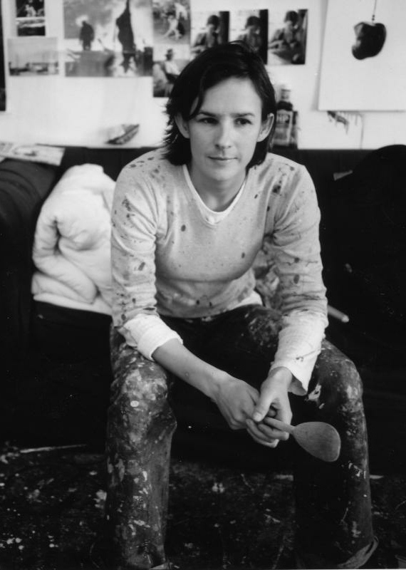 Portrait photograph of Rachel Howard. Note: Please see talk page for why there is no reason to delete this image. Tyrenius (talk) 06:17, 31 January 2009 (UTC)